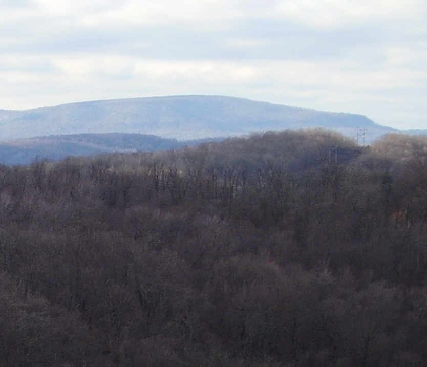 Ritchey Knob from Chimney Rocks; Hollidaysburg, Pennsylvania. Photo by: Joe Calzarette